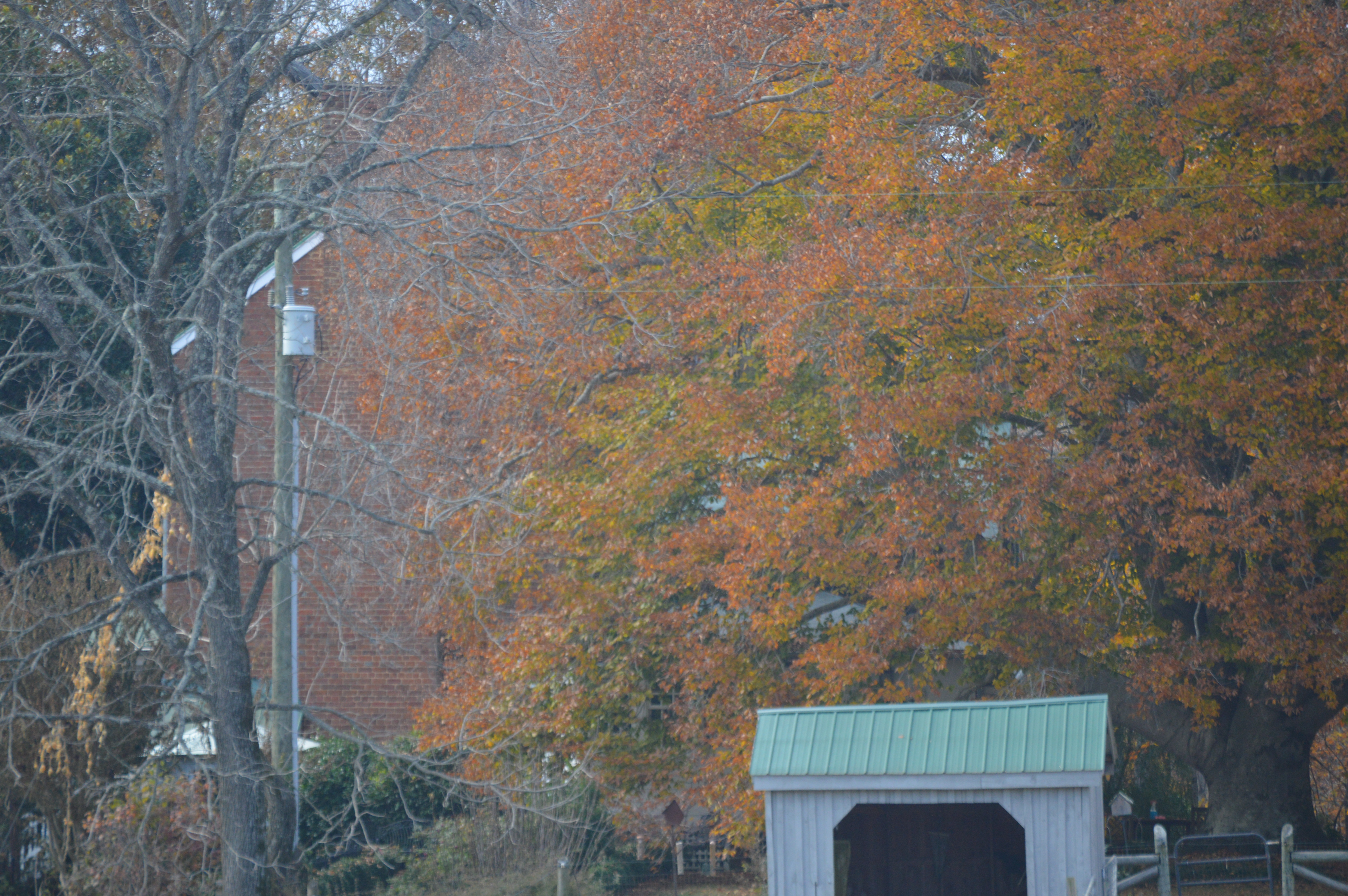 Roadside view of Maple Roads, located at 1325 Richardson Road northwest of Keysville in Charlotte County, Virginia, United States. It is listed on the National Register of Historic Places.